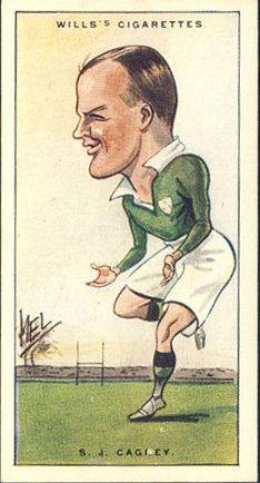 Cigarette card depicting Irish rugby player S.J. Cagney.